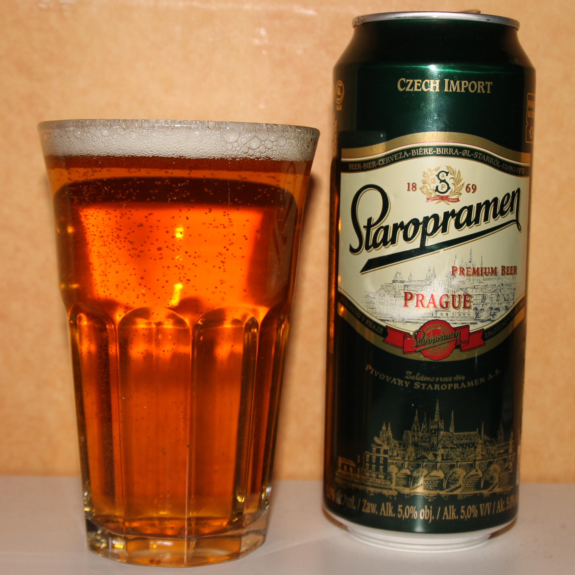 Czech beer "Staropramen" (5% alcohol)